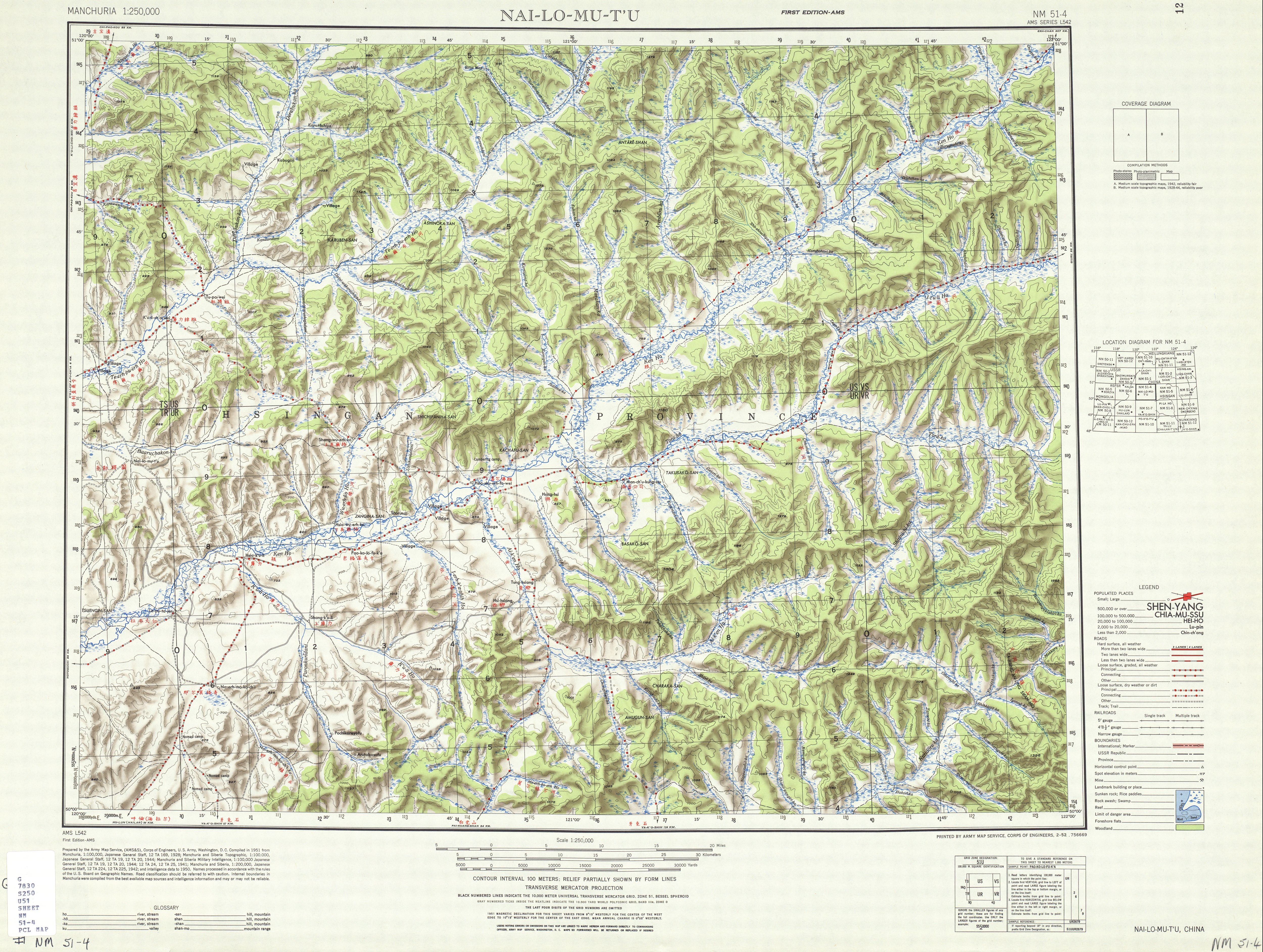 Manchuria AMS Topographic Maps